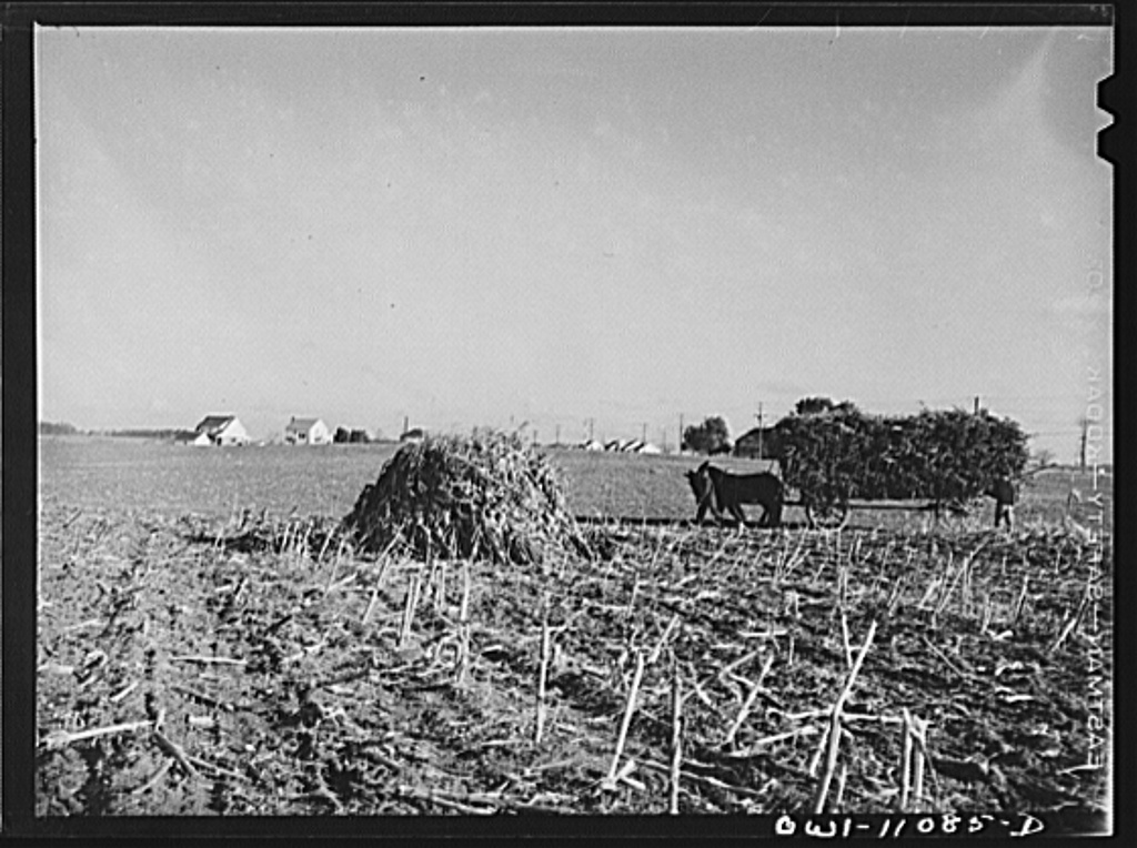 Title: Lititz (vicinity), Pennsylvania. Gathering fodder